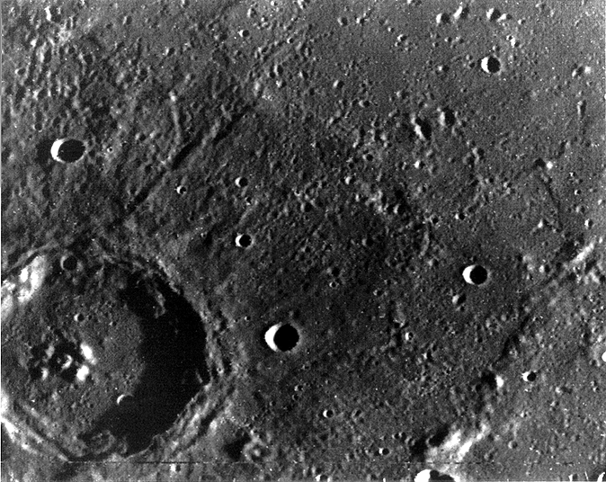 Original Caption:Mariner 10 image, from the first flyby, of Zola crater on Mercury. The 60 km diameter crater is centered at 50.5 N, 178 W in the Shakespeare quadrangle. Note the complex of peaks within the crater. North is up.Mariner 10 Image 0000099.